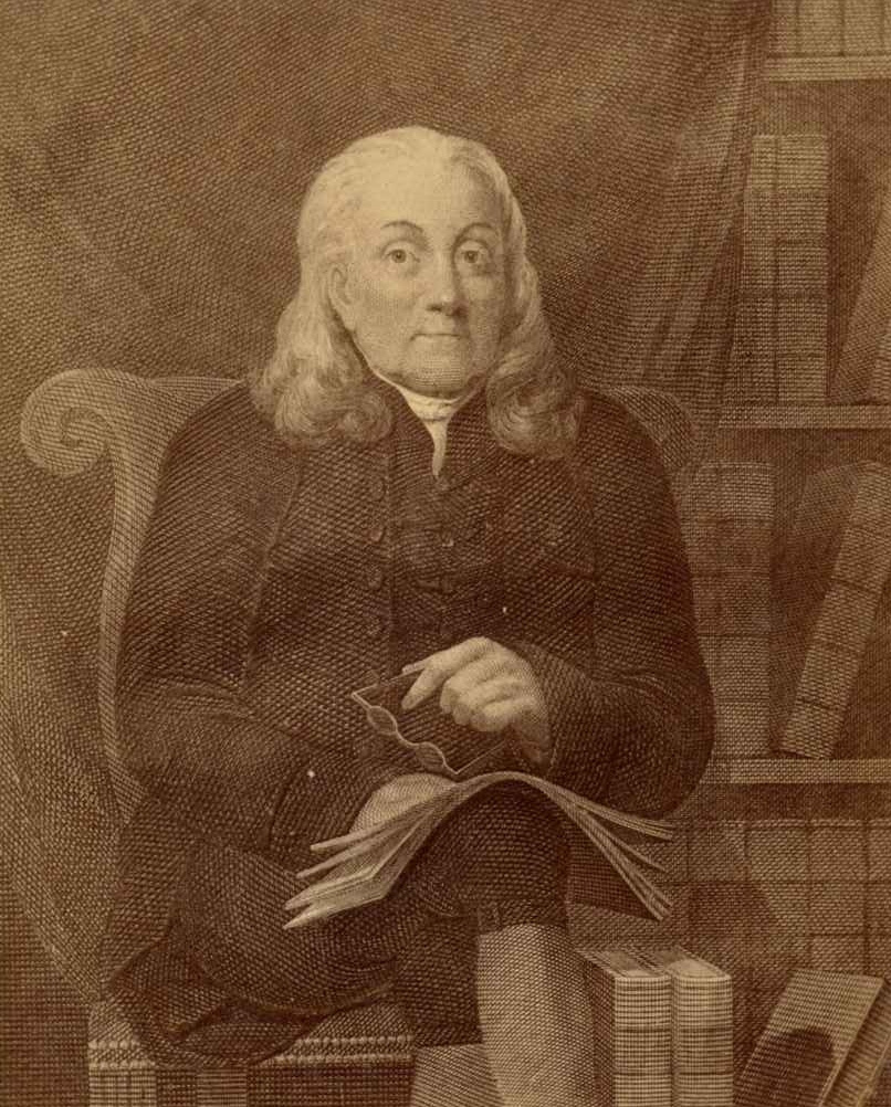 Tapping Reeve, founder of the Litchfield Law School, Litchfield, CT.